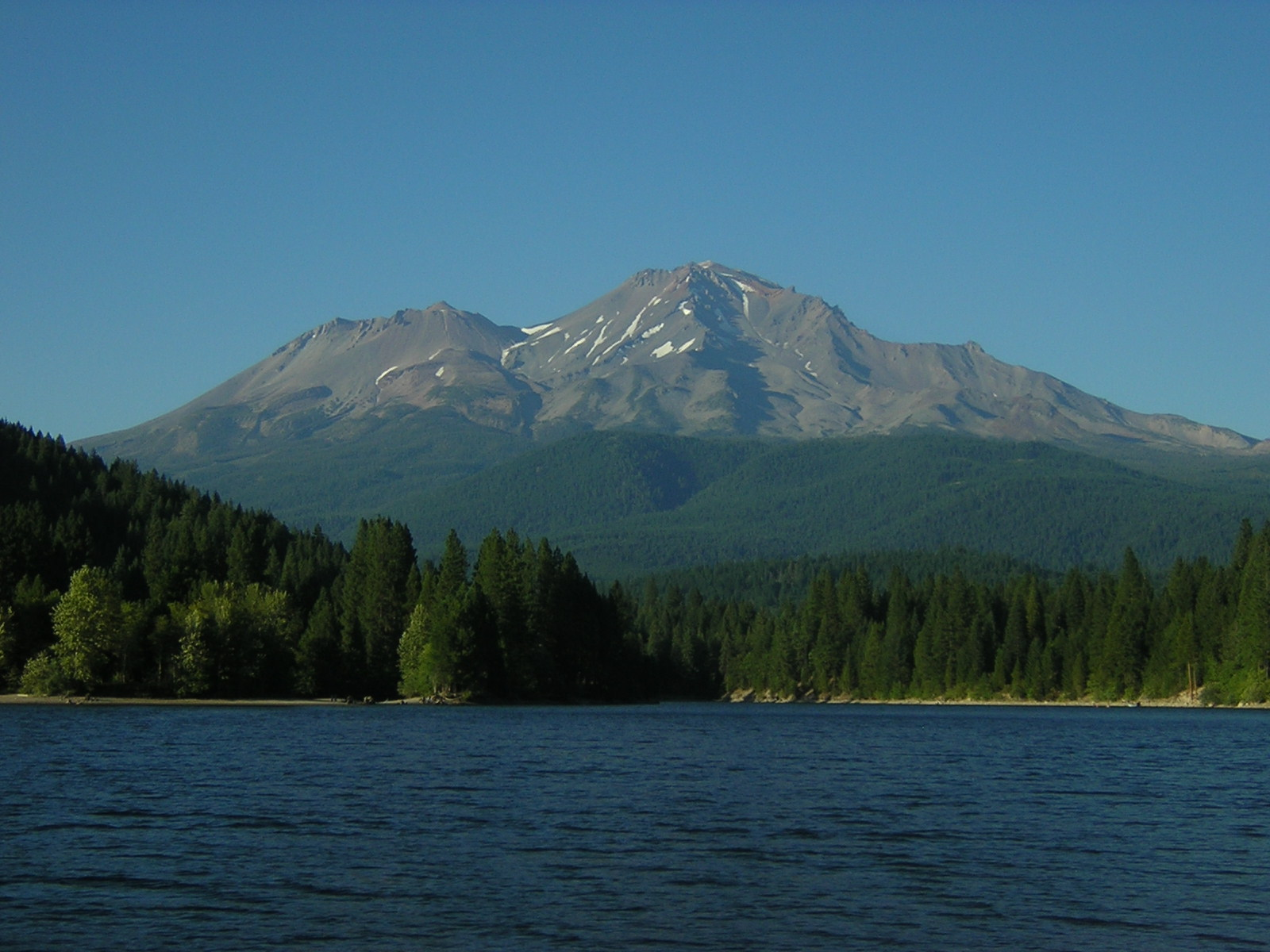 A picture of Mount Shasta taken on August 4, 2007 on Lake Siskiyou, just west of Mount Shasta city, about 12 miles west of the Mount Shasta summit.